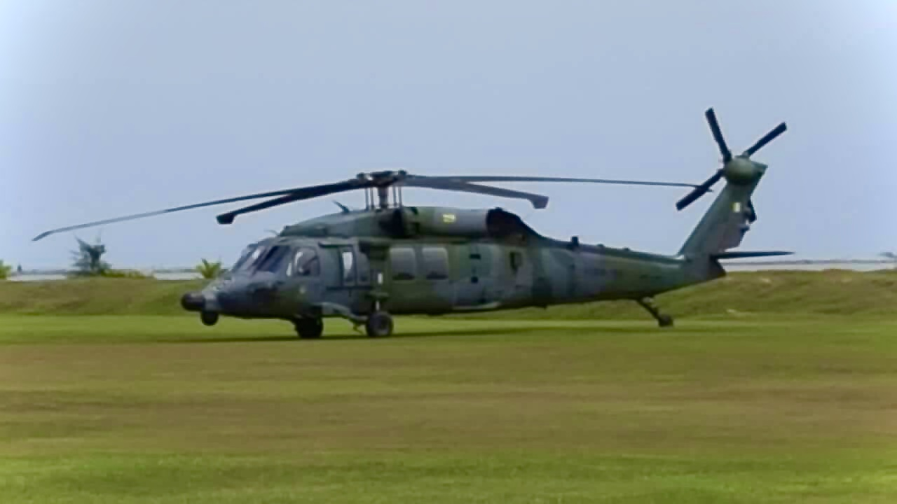 A Sikorsky S-70i from Royal Brunei Air Force parked in Kuala Belait, Brunei on 22 July 2017.